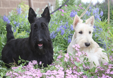 Scottish Terriers, one black, one white